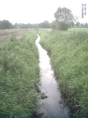 The picture displays the "Flöthbach", a small creek in Germany.